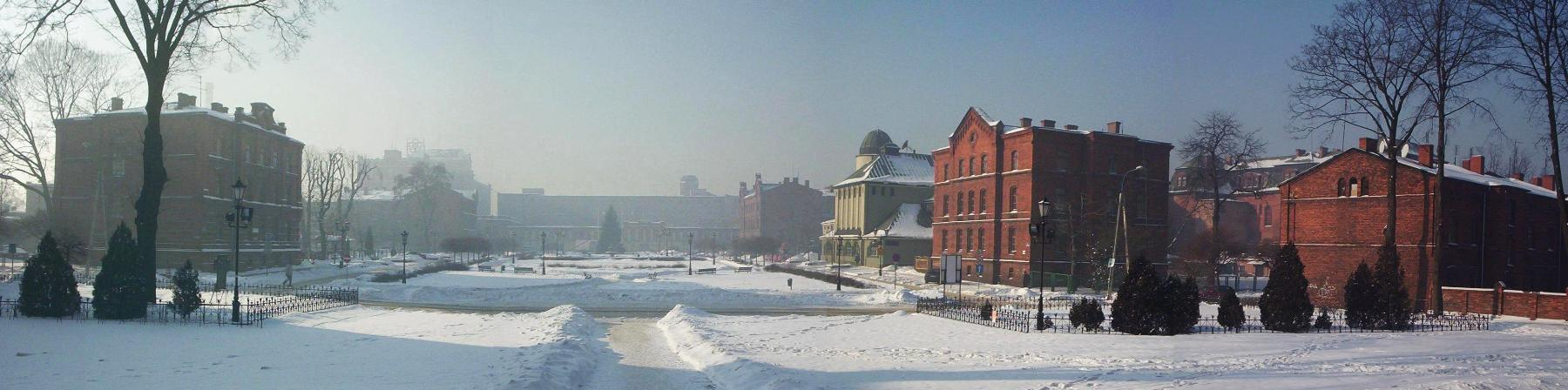 Panorama (~130°) of John Paul II Square in Żyrardów, Poland. Photos were taken, when temperature was from -20 to -30°C.